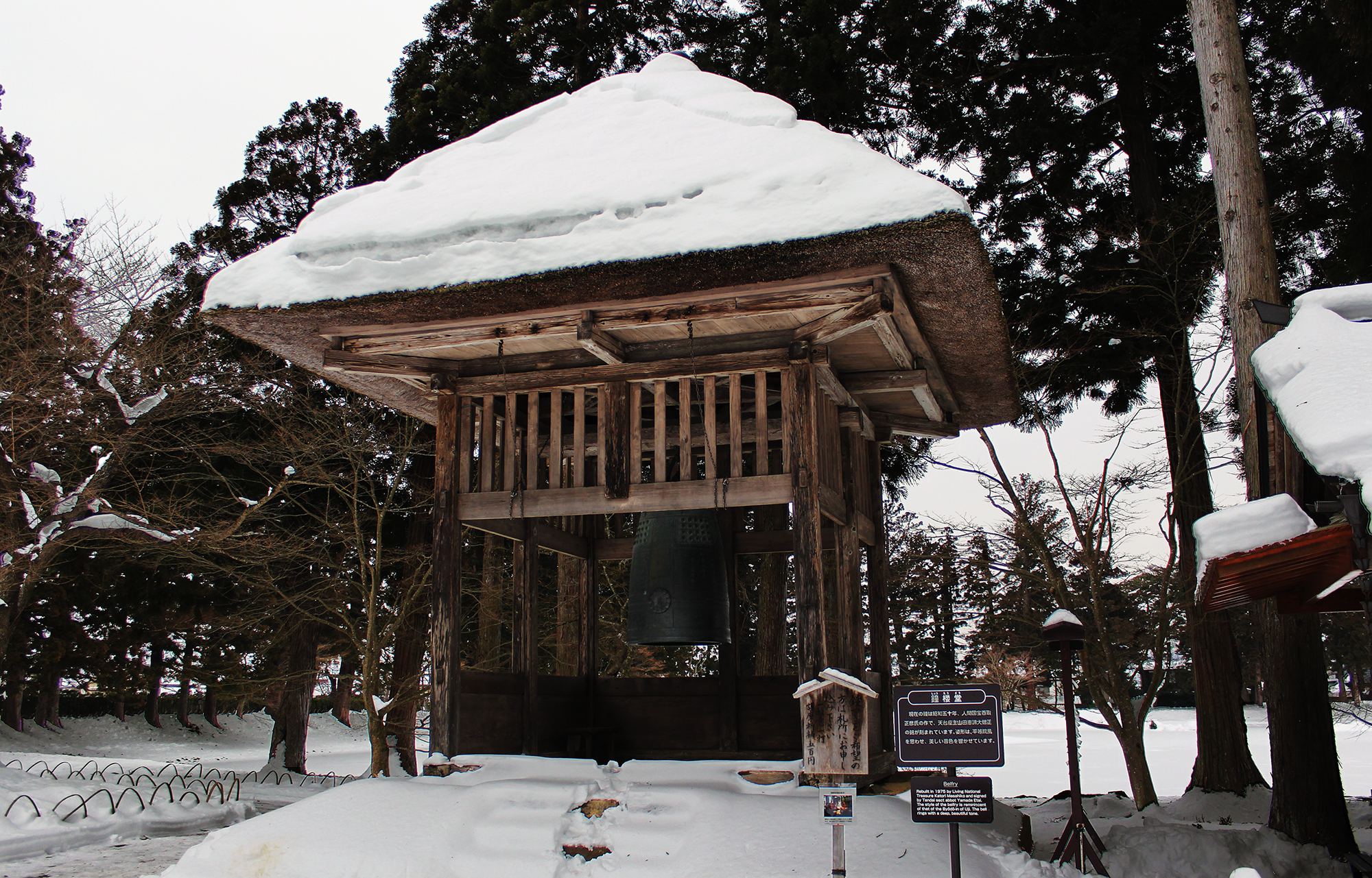 The bellfry of Motsuji temple, Hiraizumi, Iwate Prefecture